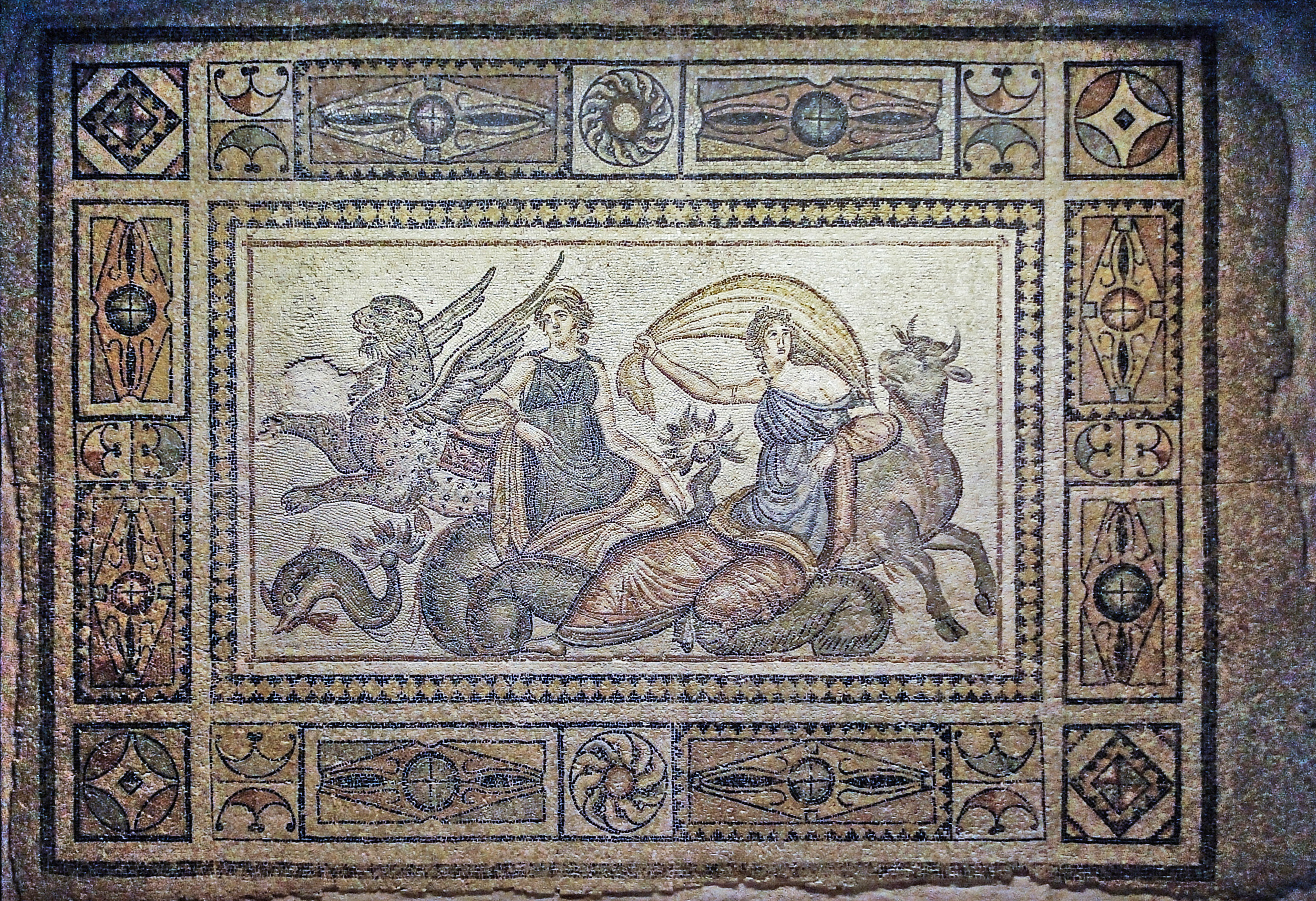 The Kidnapping of Europa Mosaic in the Zeugma Mosaic Museum, Gaziantep, Turkey